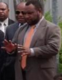 This is a cropped photo. From the US State Department website: United States Congressman Mike Honda, a Member of the House of Representatives Budget and Appropriates Committee and Chair of the Asia Pacific American Caucus, receives a traditional welcome from the Huli Wigmen from the newly established Hela Province. Accompanying him is PNG Finance Minister, Mr. James Marape, Deputy Chief of Mission Mr. Bryan Hunt and officials at the Jackson International Airport in Port Moresby.